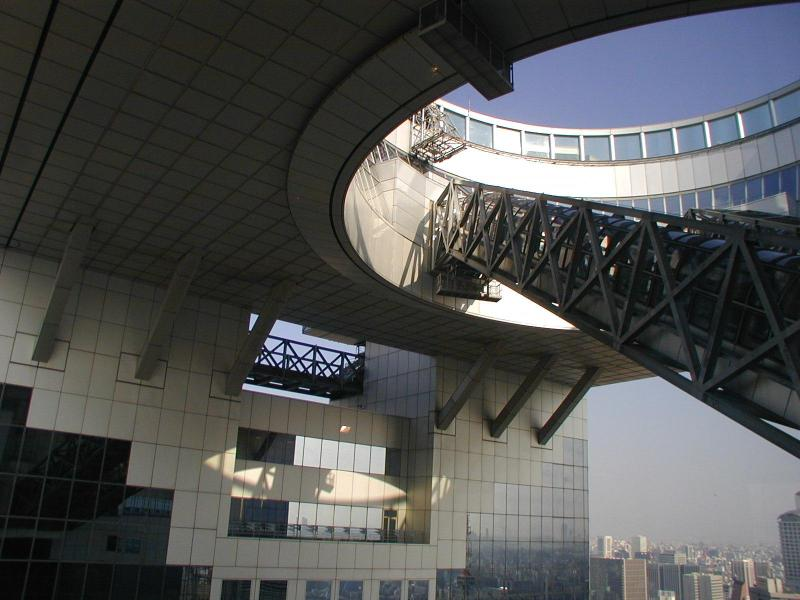 Umeda Sky Building, Osaka, Japan -- by jpatokal.